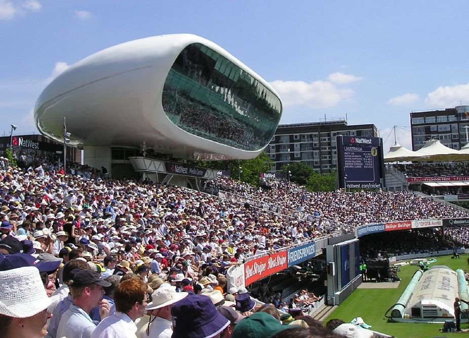 Investec media centre at Lord's cricket ground (cropped)